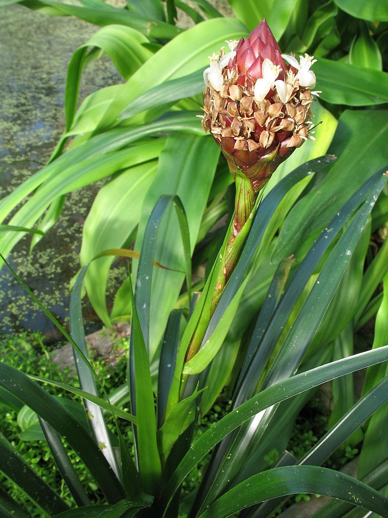 Guzmania farciminiformis in cultivation at the Botanical Garden of Heidelberg, Germany.